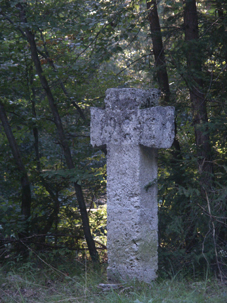 old cross in the "Holzfeld Forest" "Hoenward", made by me in spring 2004